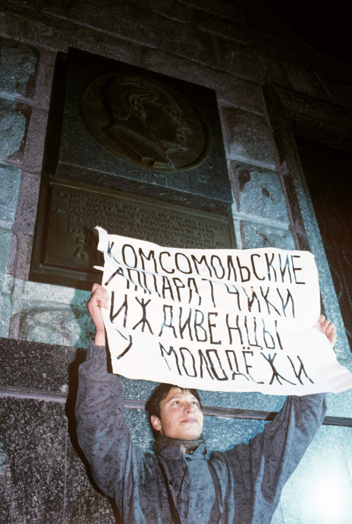 “Rally of "Democratic Union" in Pushkin Square”. An unauthorized rally organized by the "Democratic Union" movement in Moscow's Pushkin Square. The poster reads: "Komsomol functionaries - scroungers at the expense of youth". 1989.